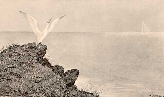 "From Lofoten", 1890